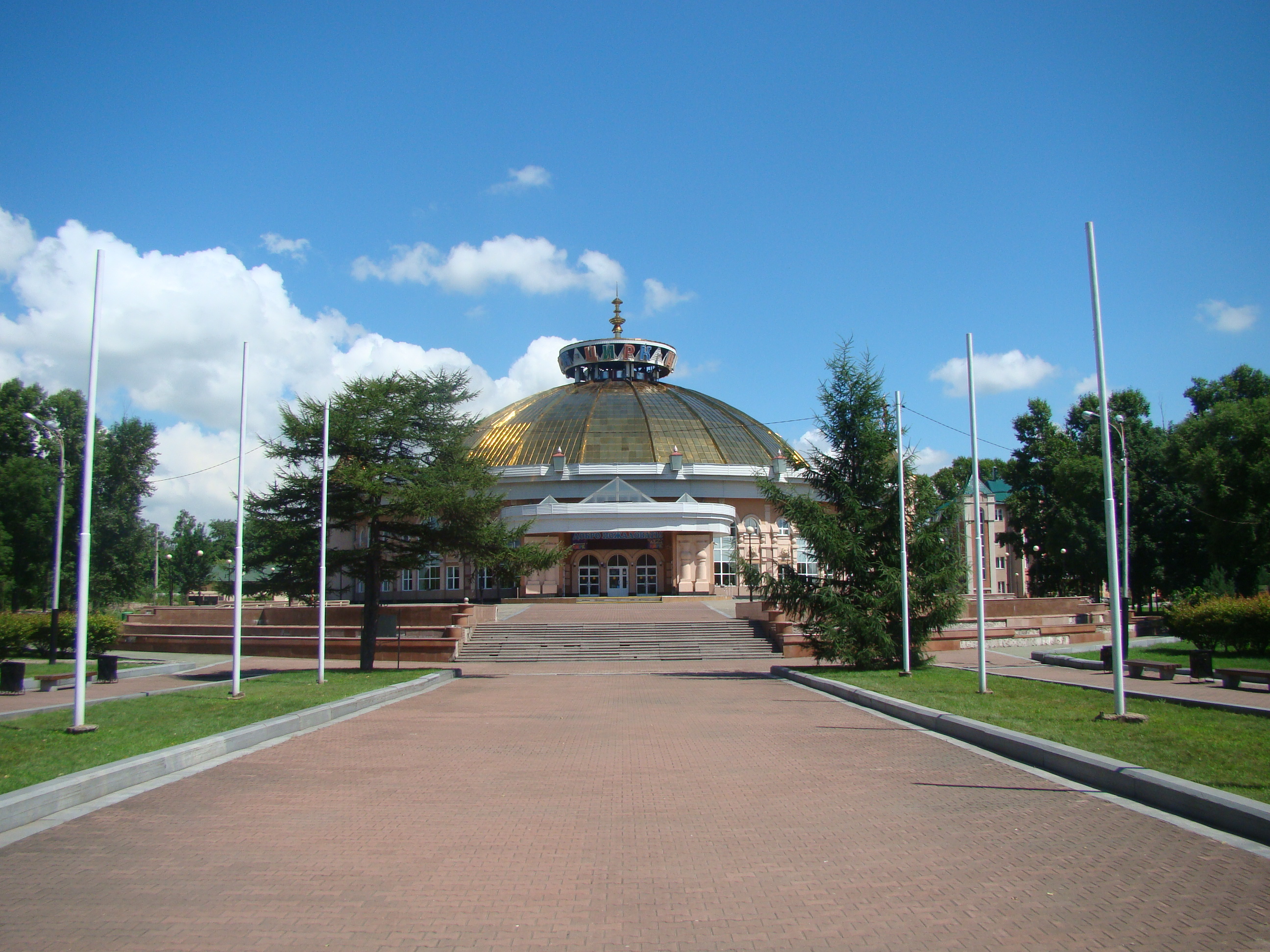 Khabarovsk State Circus